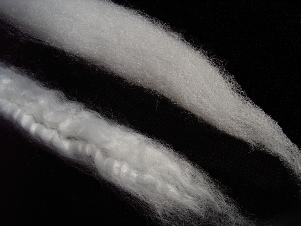 Wool Rubans de laine en cours de transformation. Taken by myself 6th of May 2006. --florival fr 17:14, 06 May 2006 (UTC)